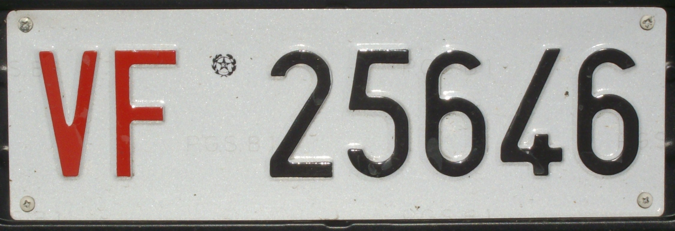 Italy, Vehicle registration plates of Italy. The license plate used by the Fire Department.